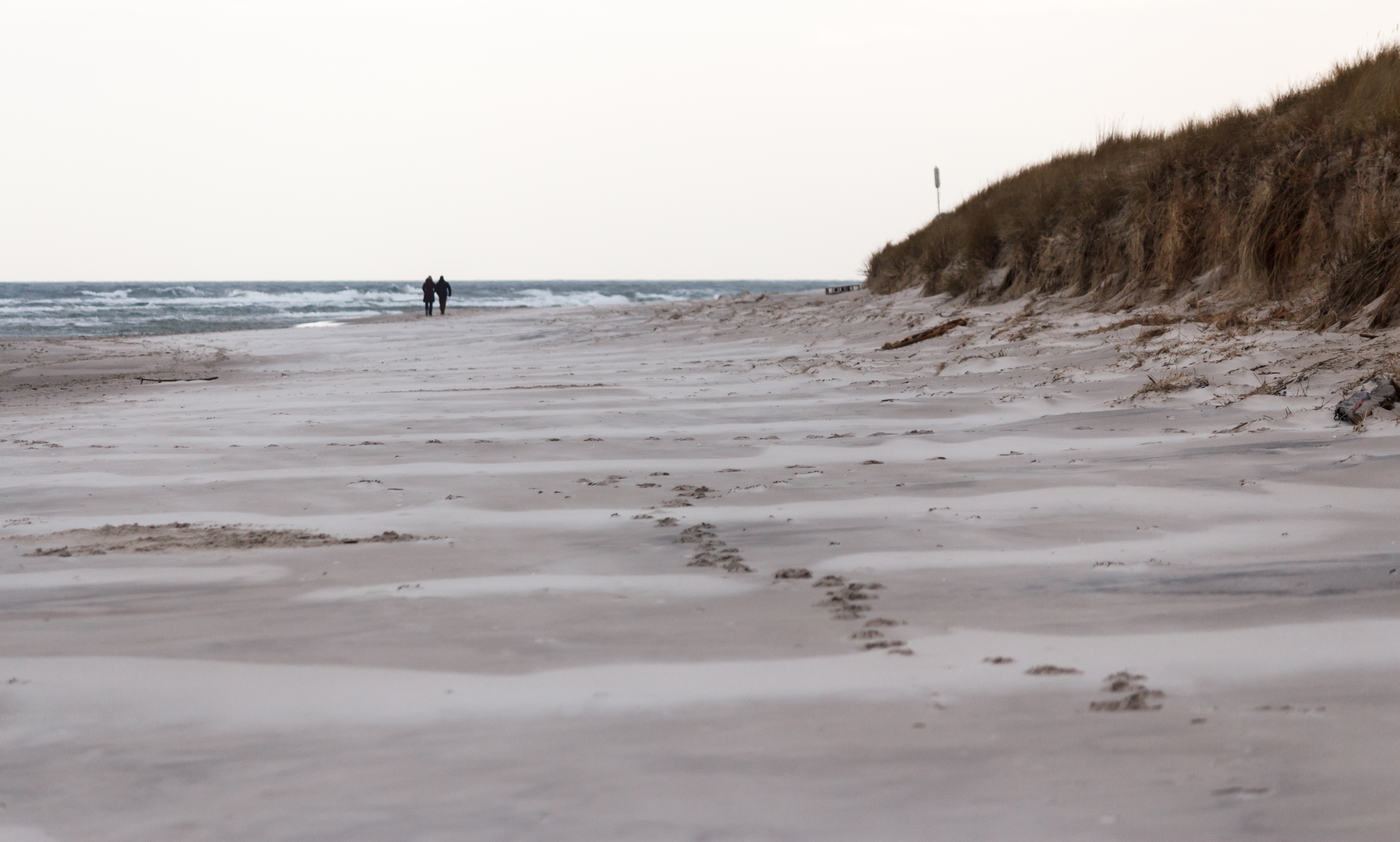 Beach at Sandhammaren, Scania, Sweden